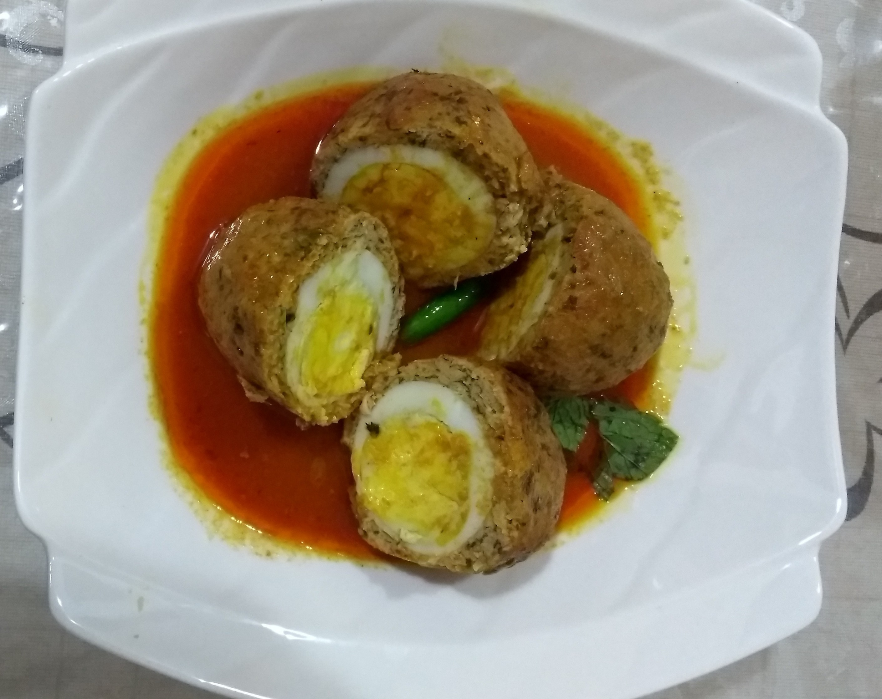 Pakistani style kofta (mincemeat balls) wrapped around a whole hard-boiled egg.